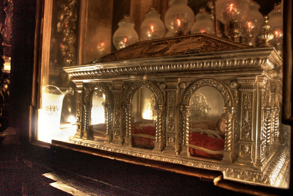 Reliquary with Saint John of the Cross' bones at Úbeda, Jaén